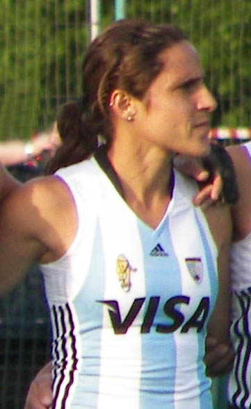 Mercedes Margalot. Las Leonas. Argentina. Field Hockey